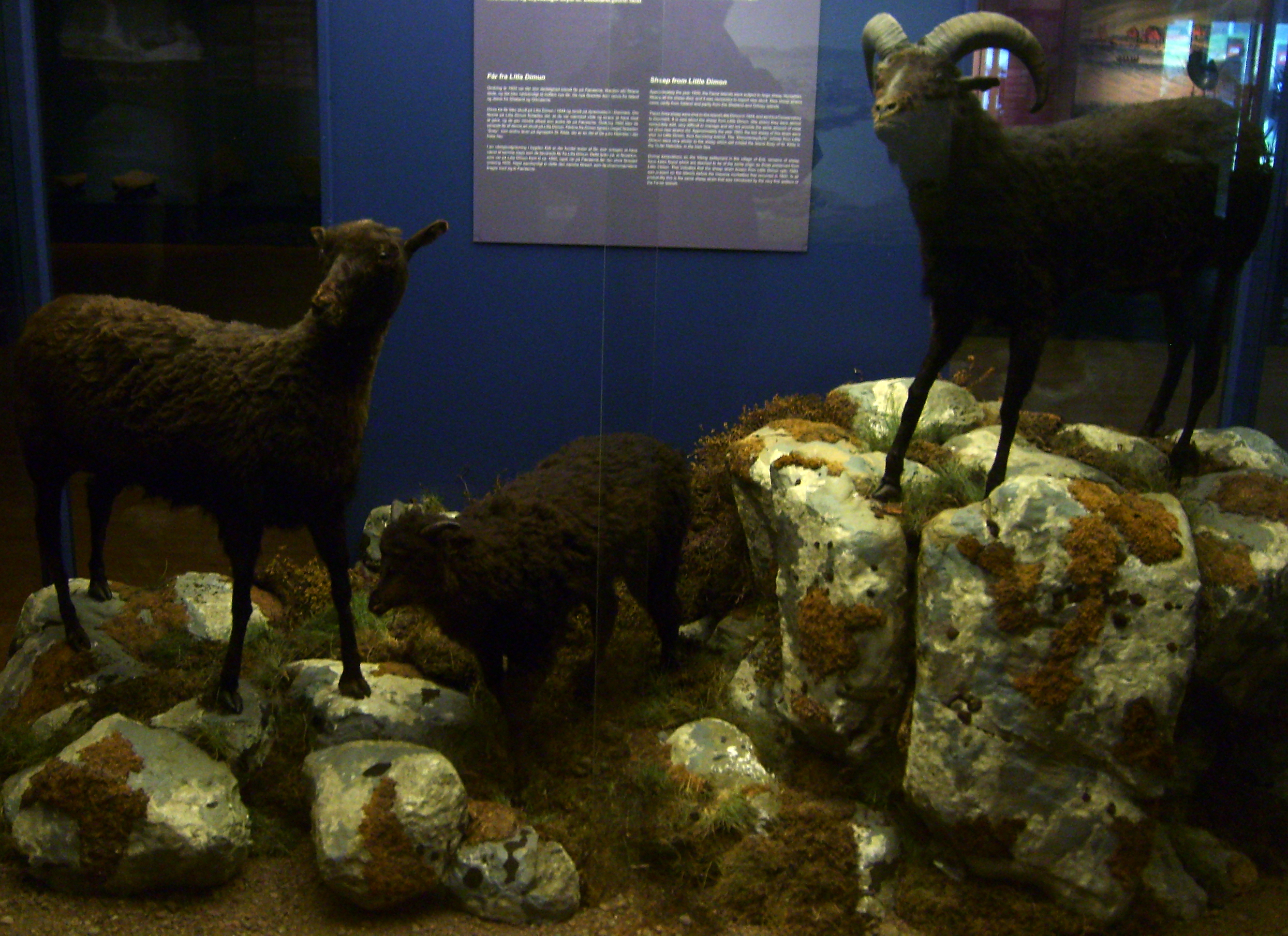 Stuffed specimens of the primitive feral sheep that survived on Little Dímun until the mid 1800s, Føroya Fornminnissavni.[1]